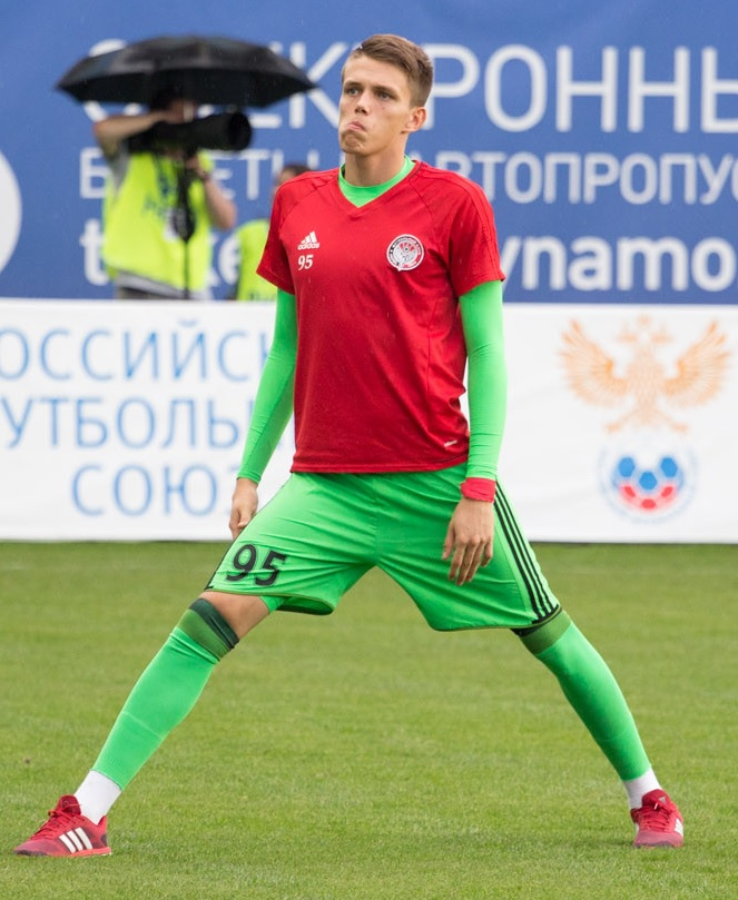 Denis Vambolt with FC Amkar Perm before the game against FC Dynamo Moscow.